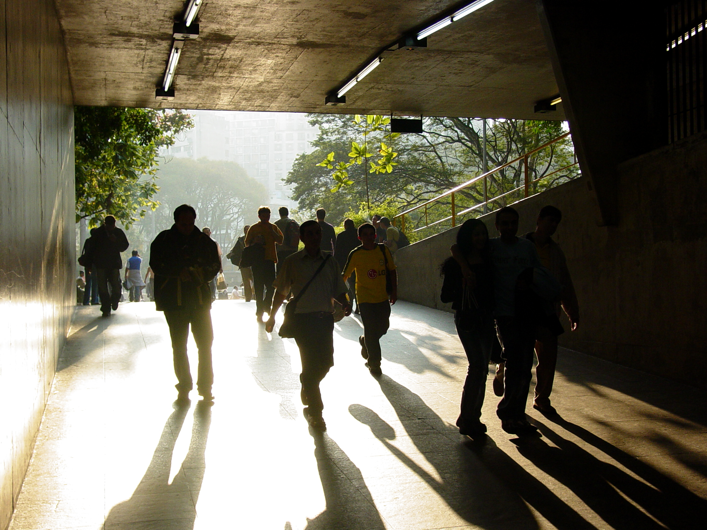 Entering the Sao Bento metro station, Sao Paulo, Brazil. July 2006.